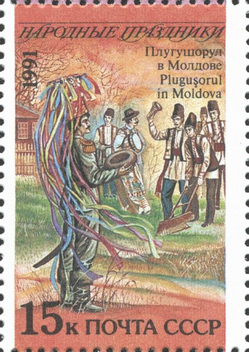 A USSR stamp